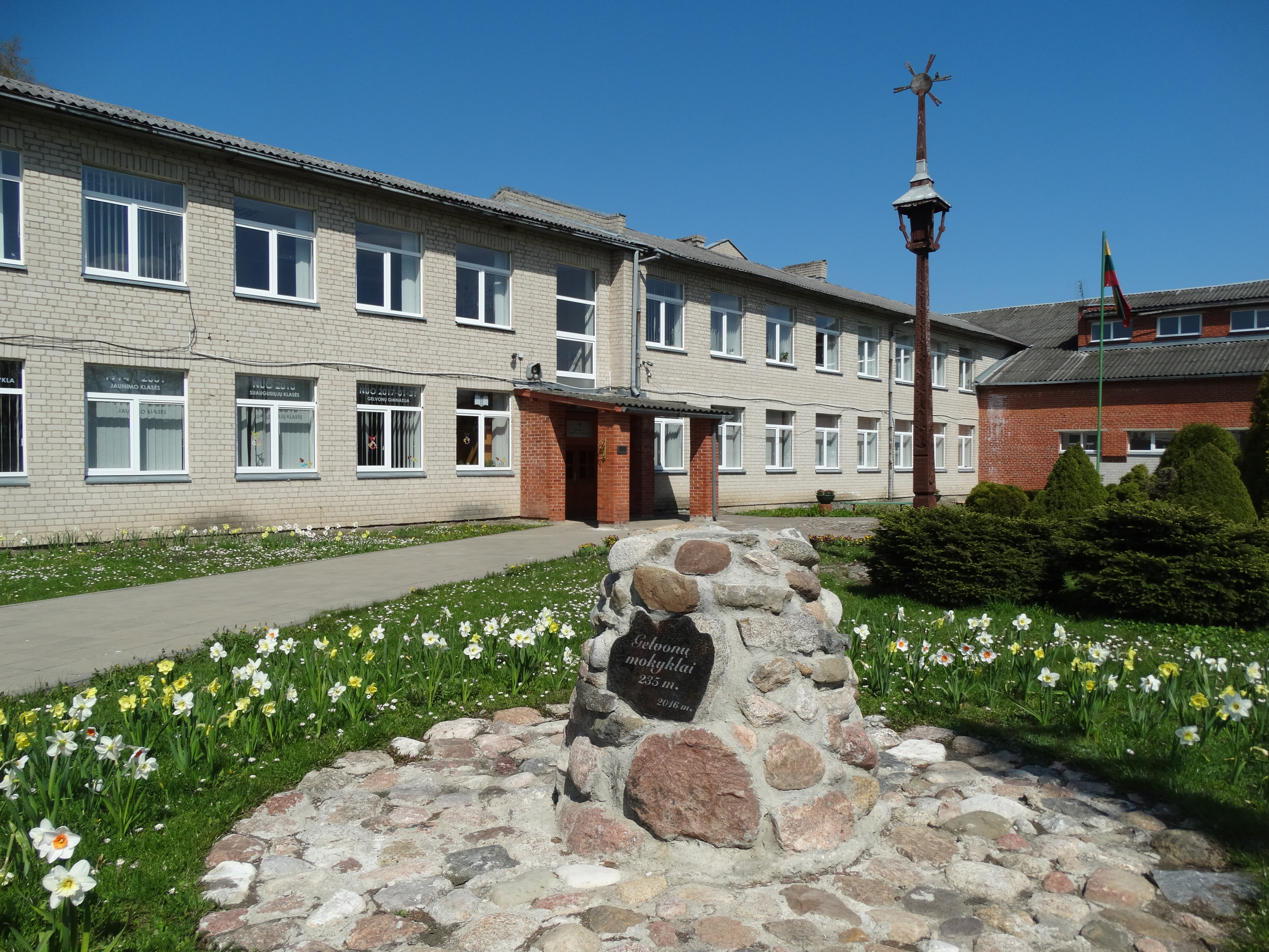 Gelvonai gymnasium, Širvintos District, Lithuania